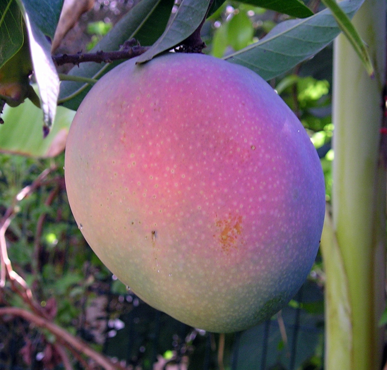 Mango from type Maya